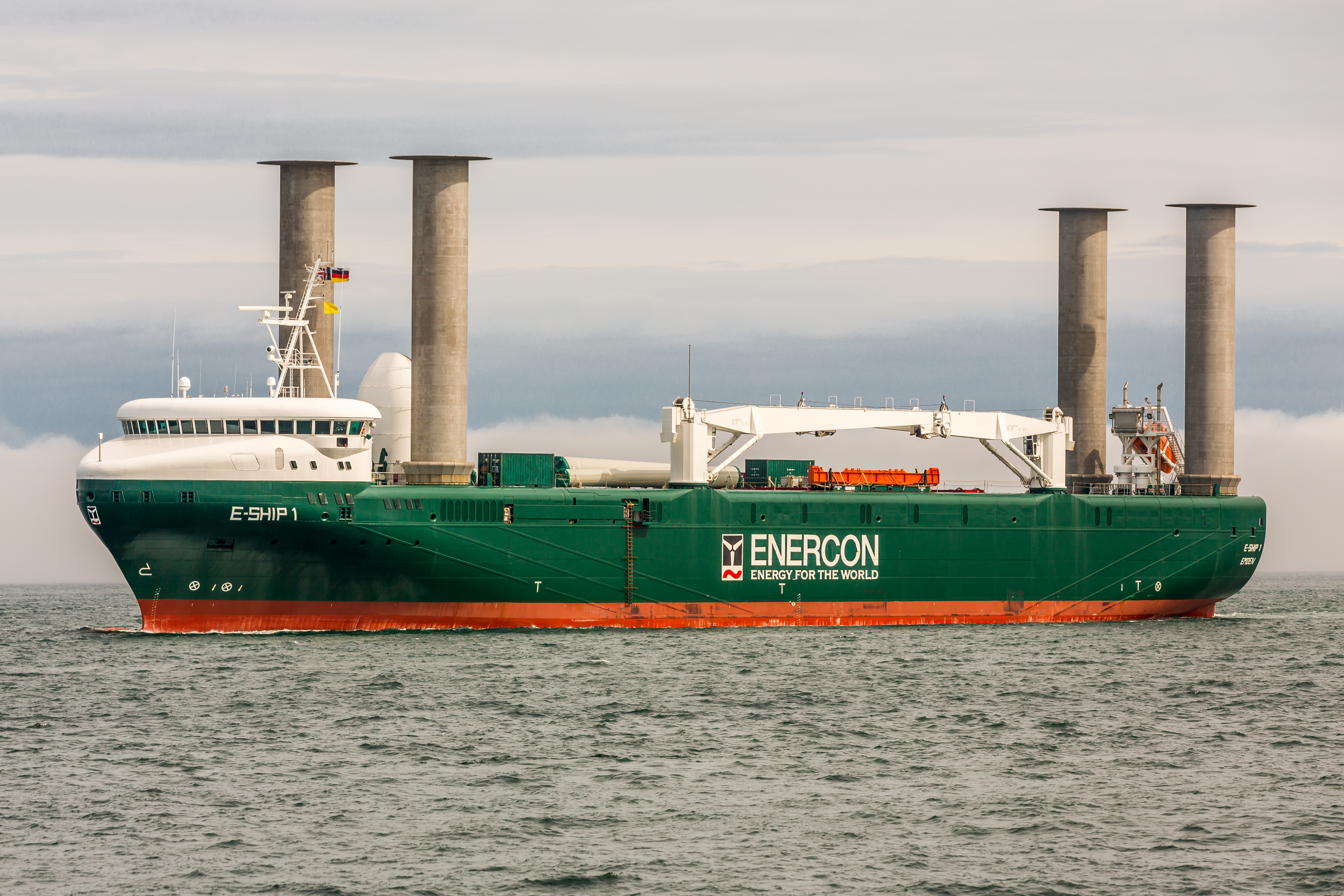 IMO: 9417141 MMSI: 218108000 Call Sign: DGFN2 Flag: Germany (DE) AIS Type: Cargo Gross Tonnage: 12968 Deadweight: 10020 t Length × Breadth: 131m × 24m Year Built: 2010 The E-Ship 1 is a RoLo cargo ship that made its first voyage with cargo in August 2010. The ship is owned by the third-largest wind turbine manufacturer, Germany's Enercon GmbH. It is used to transport wind turbine components. The E-Ship 1 is a Flettner ship: four large rotorsails that rise from its deck are rotated via a mechanical linkage to the ship's propellers. The sails, or Flettner rotors, aid the ship's propulsion by means of the Magnus effect – the perpendicular force that is exerted on a spinning body moving through a fluid stream. WIKIPEDIA